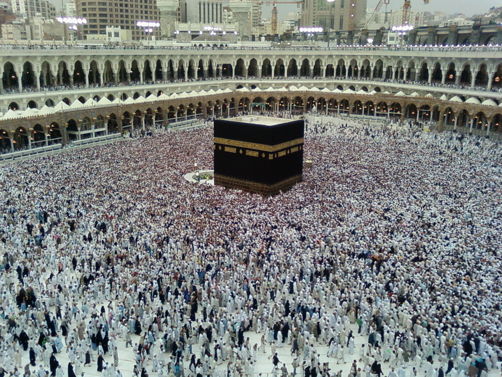 Thavaf